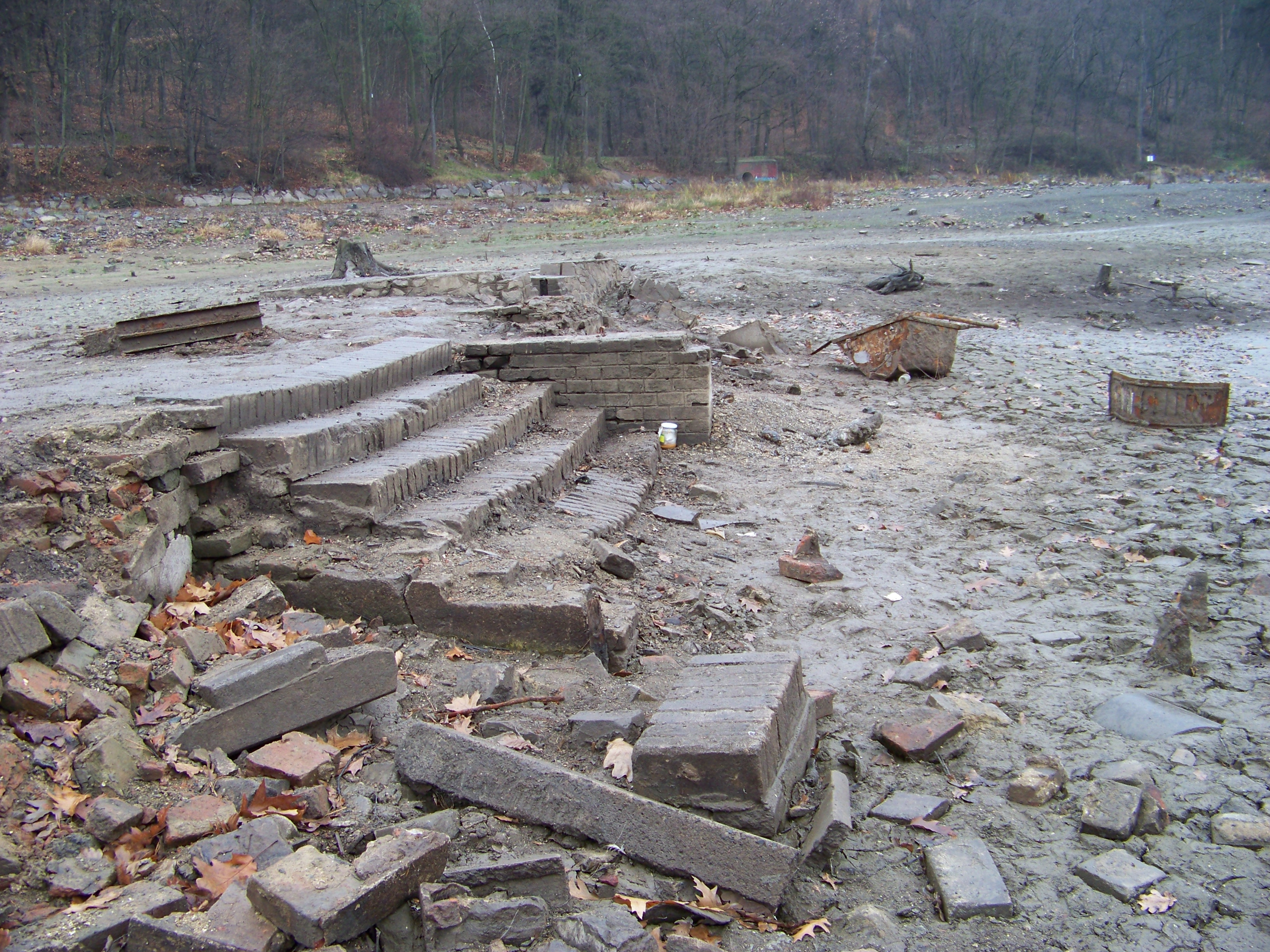 Prague-Hostivař, the Czech Republic. Emptied Hostivař Reservoir. A ruin of Moucha's Mill, a staircase.